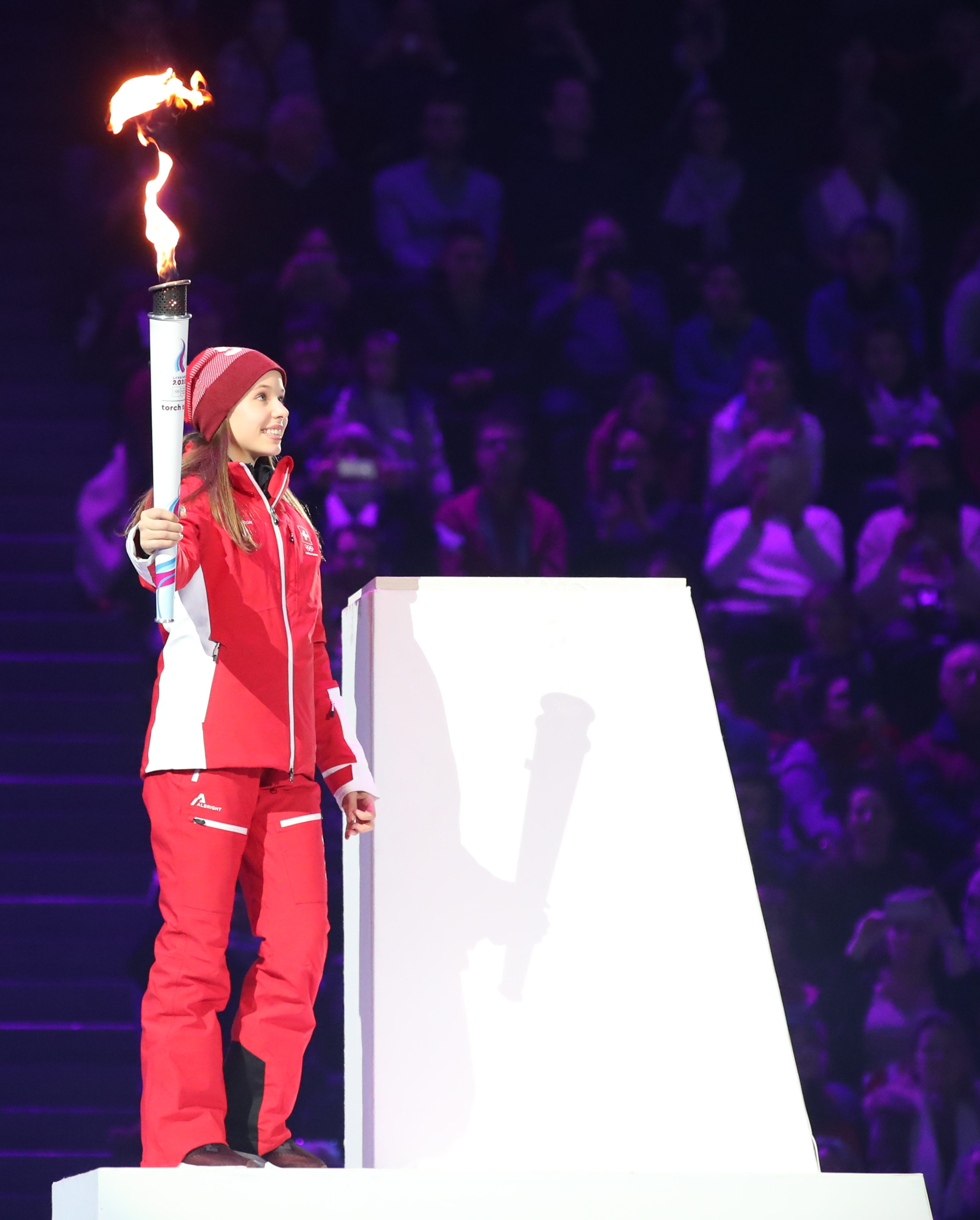 Opening Ceremony YOG 2020. Gina Zehnder, ice dancer (SUI)